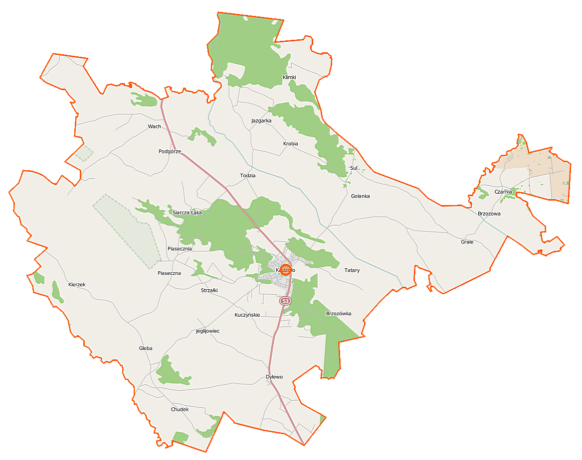 Map of Gmina Kadzidło, Poland This map of Kadzidło (gmina) was created from OpenStreetMap project data, collected by the community. This map may be incomplete, and may contain errors. Don't rely solely on it for navigation. Border coordinates53.345821.2668←↕→21.667453.1562